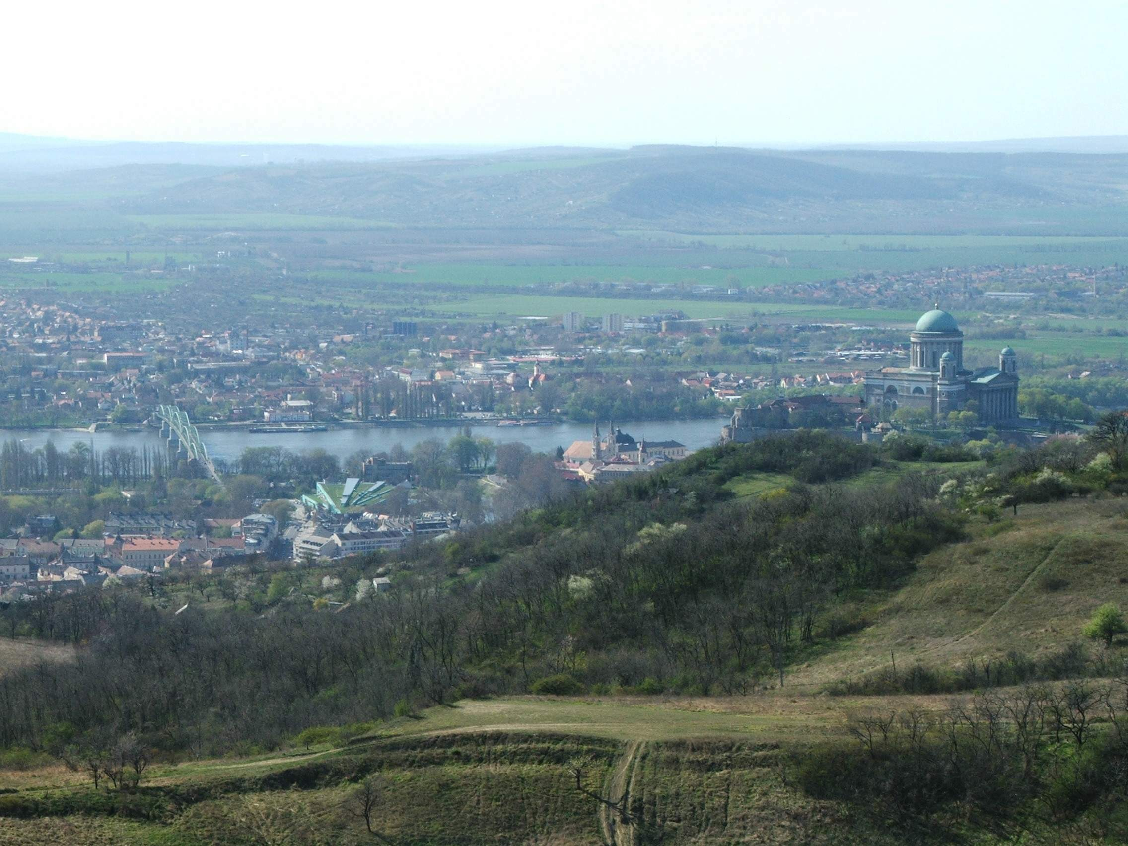 View of Esztergom from the Vaskapu hill